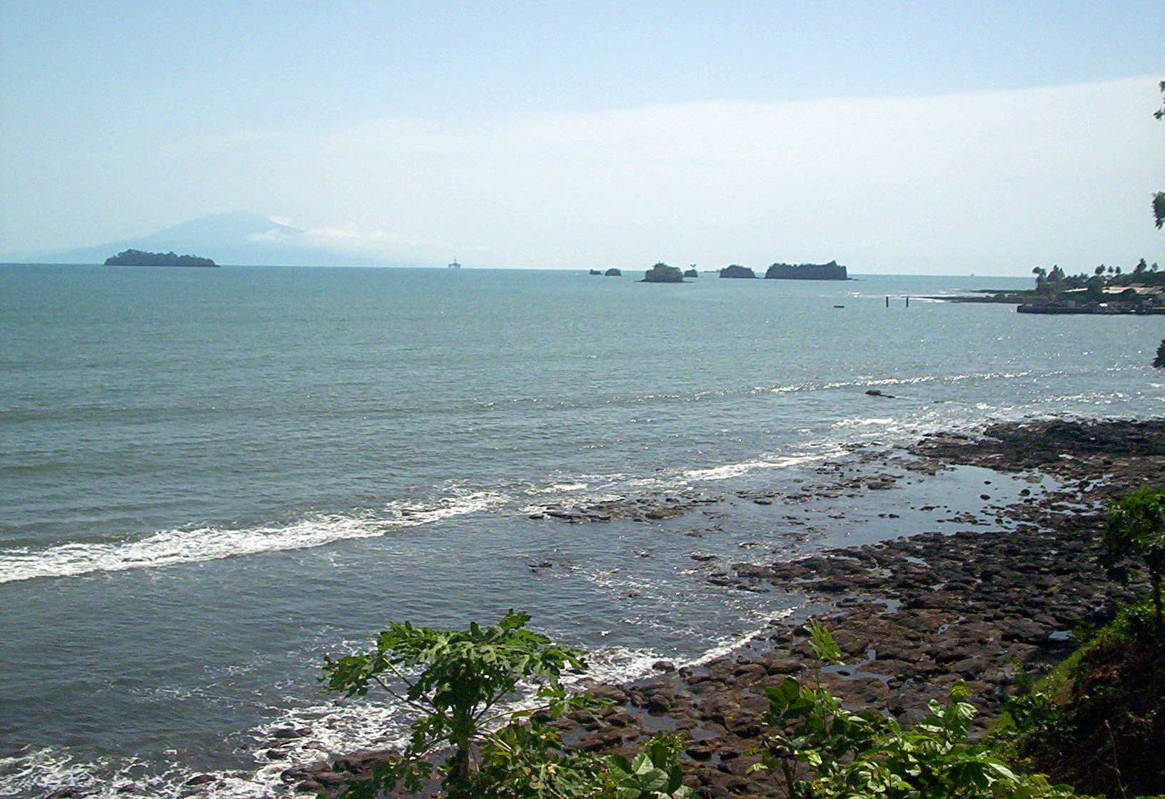 Ocean at Limbe, Southwest Province, Cameroon, with Bioko (Equatorial Guinea) visible in the distance.